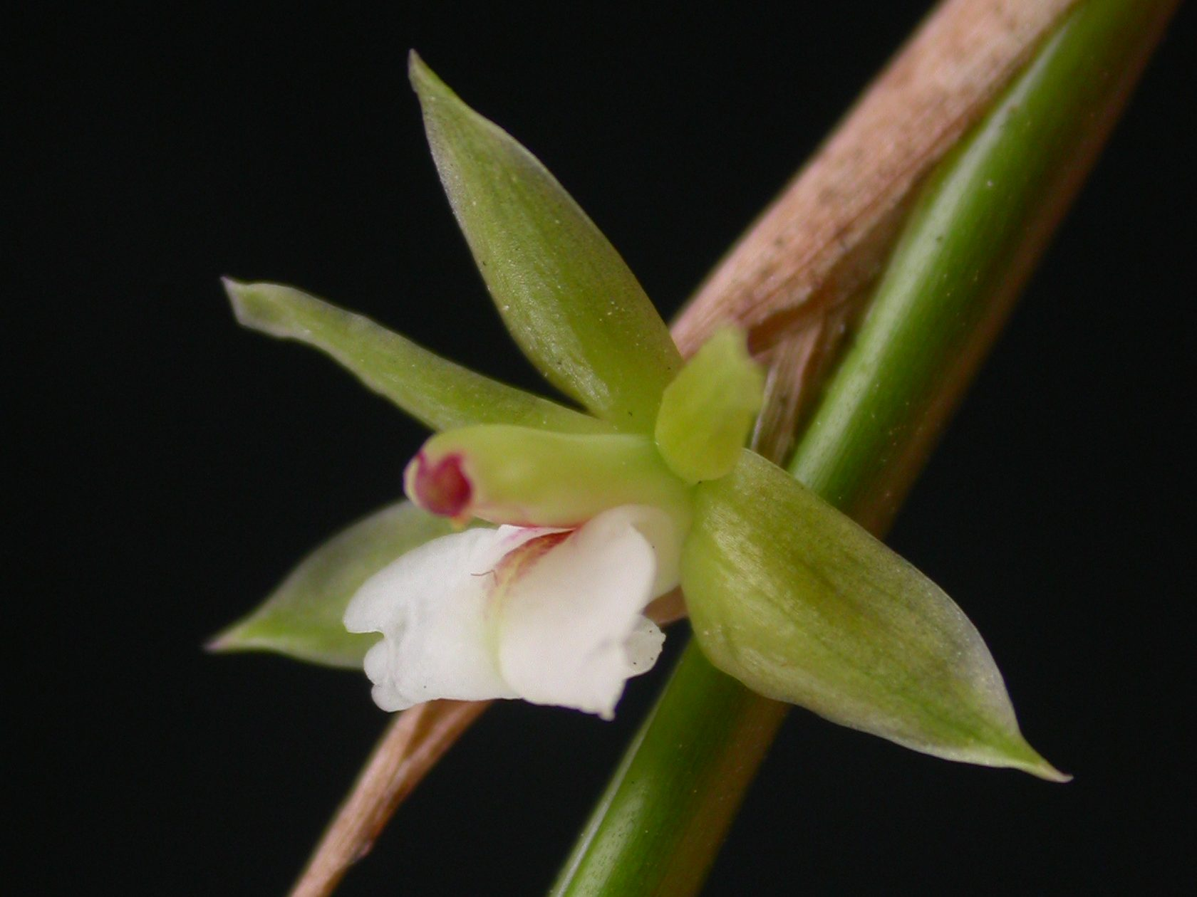 Scaphyglottis_brasiliensis_flower_lateral_view